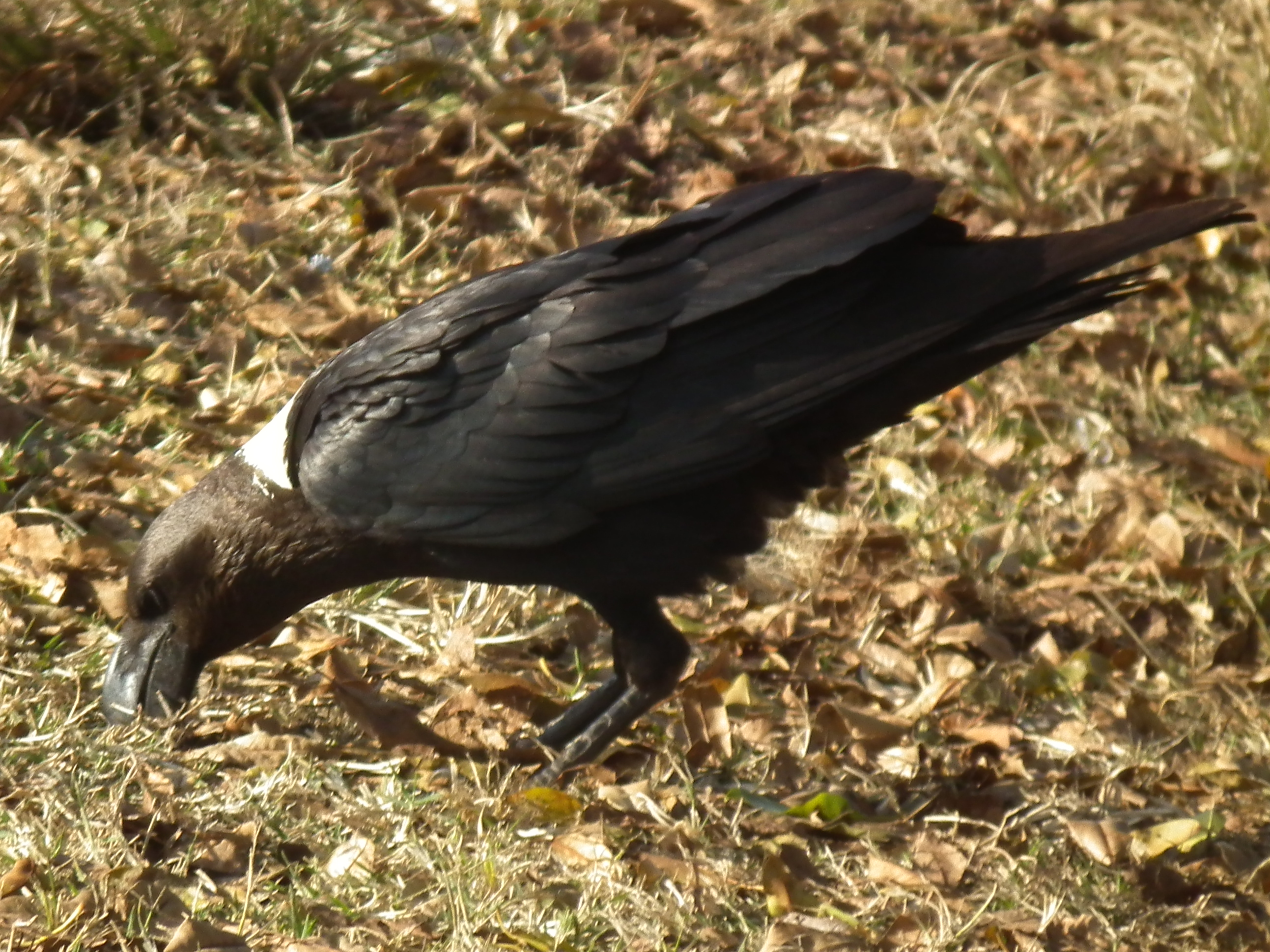 White-necked Raven (Corvus albicollis), picture taken, Northern Tanzania